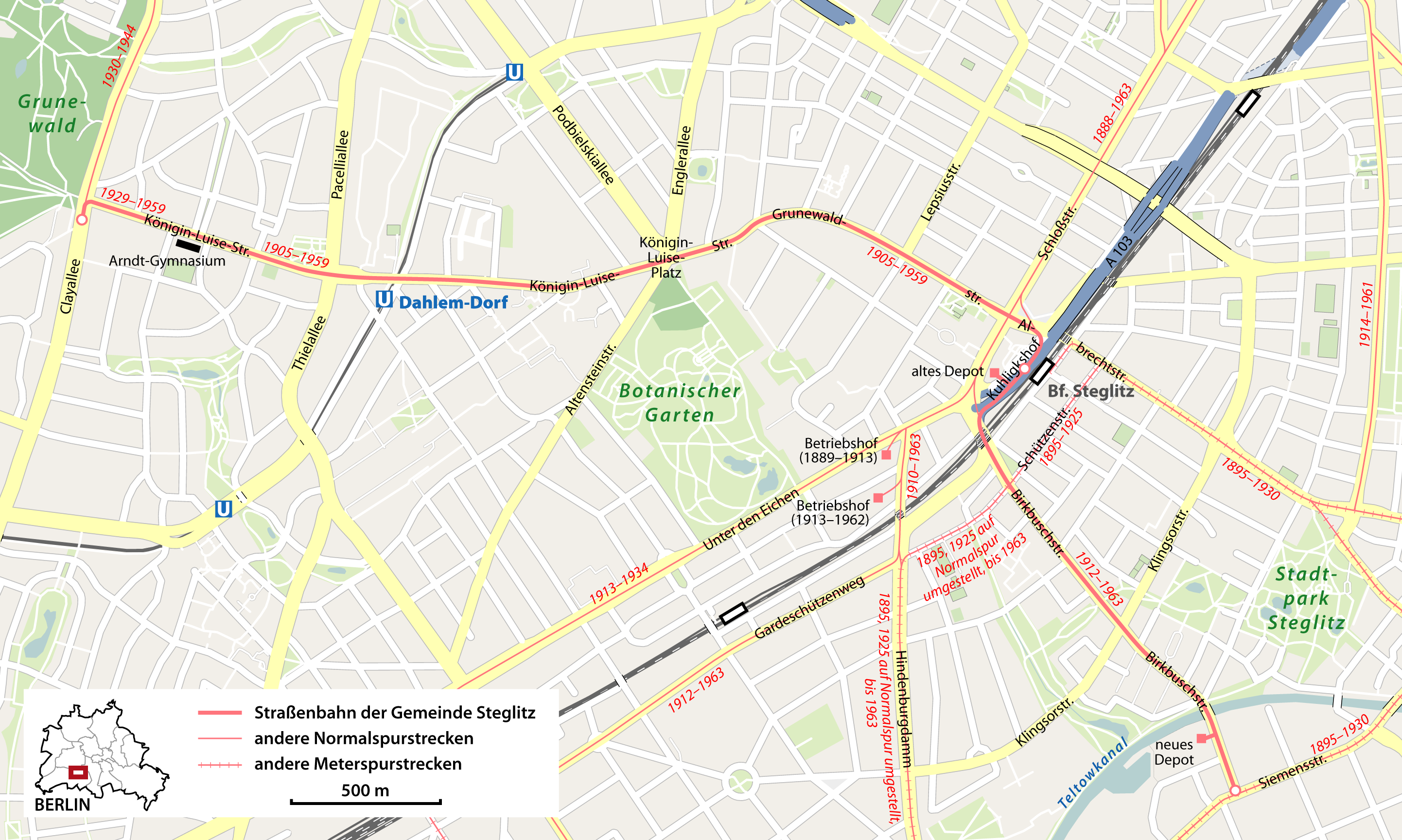 Map of the Steglitz tram (Berlin) This map may be incomplete, and may contain errors. Don't rely solely on it for navigation.